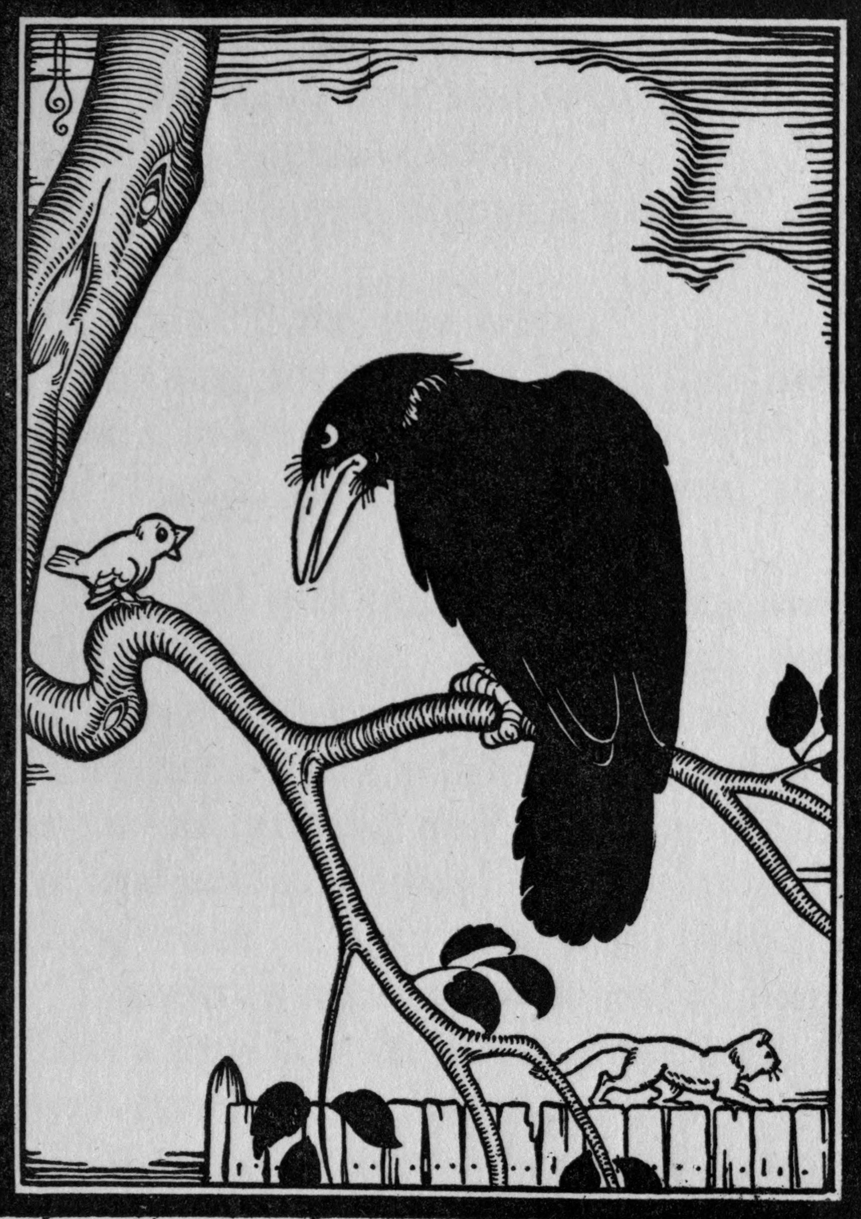 Illustration by Boris Artzybasheff from by Dmitry Mamin-Sibiryak